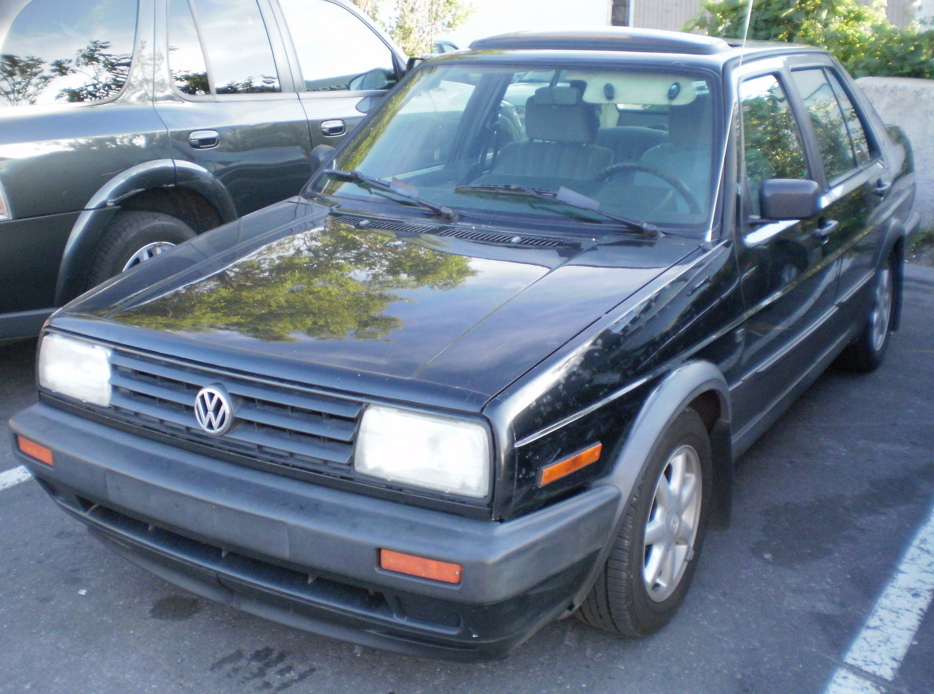 1990-1992 Volkswagen Jetta photographed in Montreal, Quebec, Canada at the Gibeau Orange Julep.